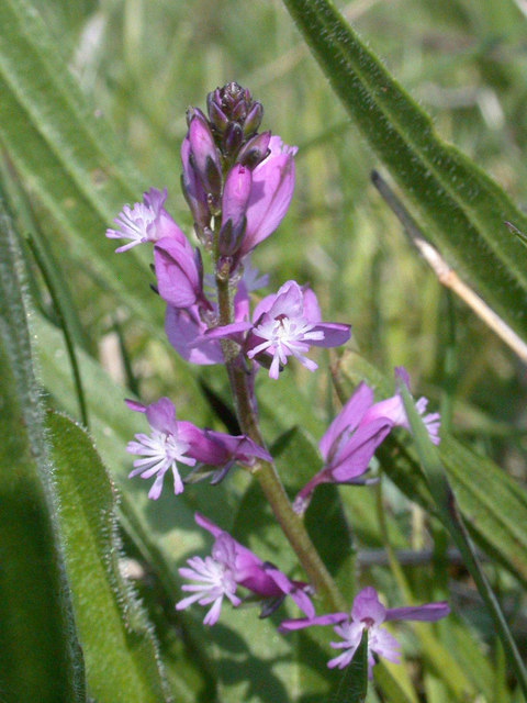 Common Milkwort (Polygala vulgaris) These rather strange flowers have stamens which look like slim petals in radiating bunches. Blue flowers are more common than mauve ones like these, and it also occurs in white. The leaves in the photo do not belong to it. A chalk-loving species, this one was found in the old Coploe Hill chalk pit.